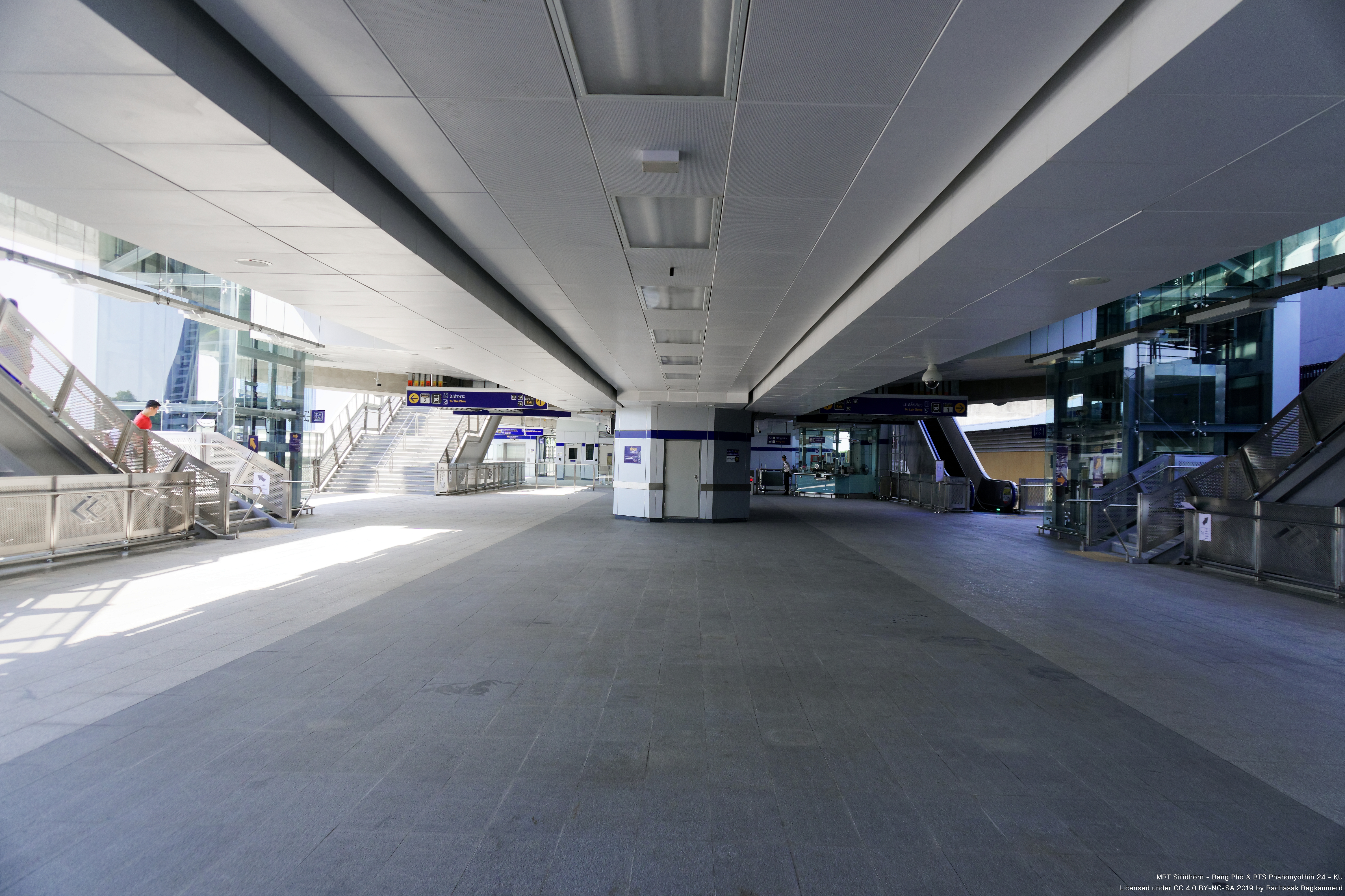 MRT Bang Pho - Ticket office area from Exit 2